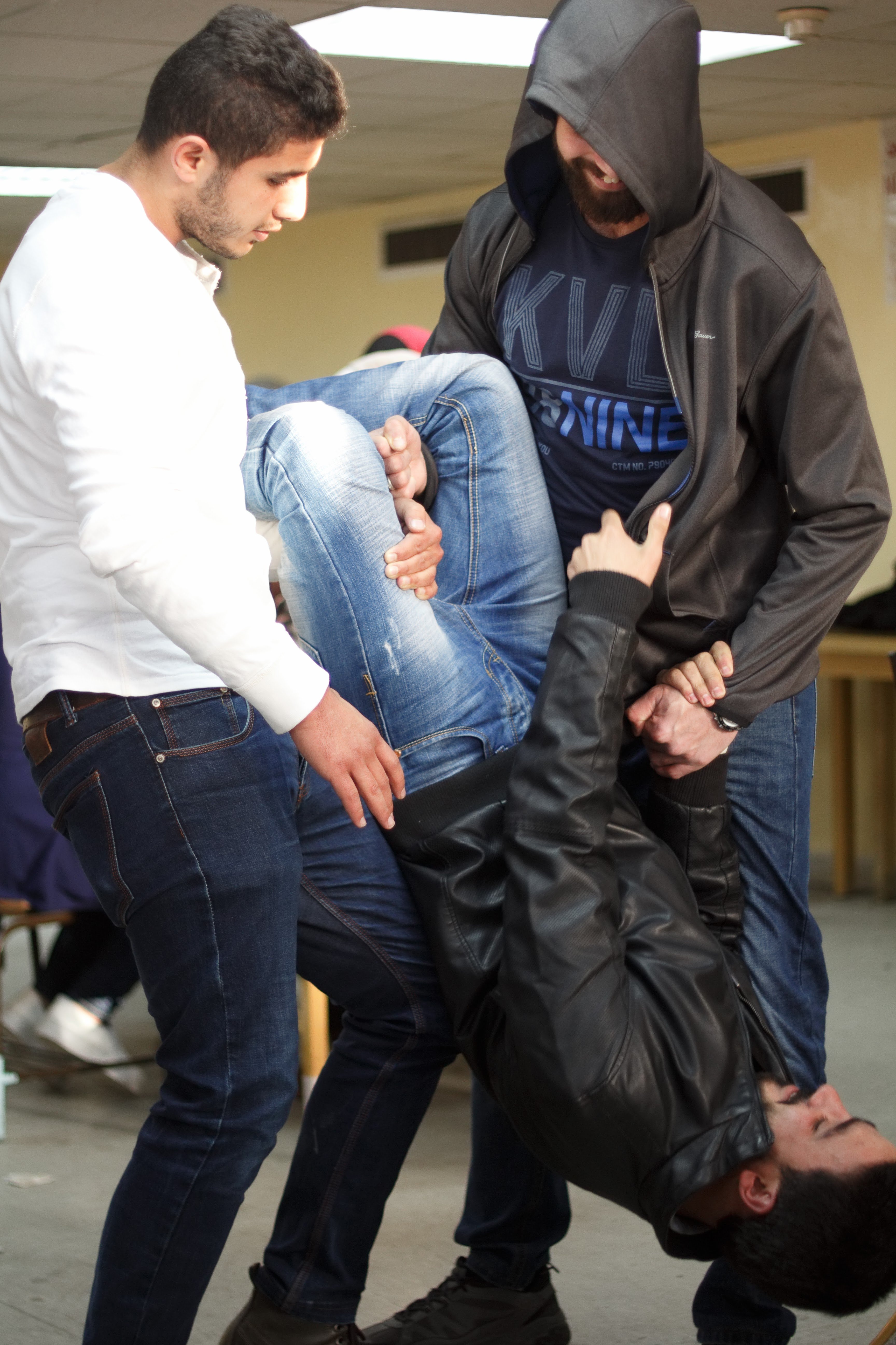 Mannequin challenge Done by 100+ Engineering Students at University of Jordan, Collaboration with Wikimedia Levant